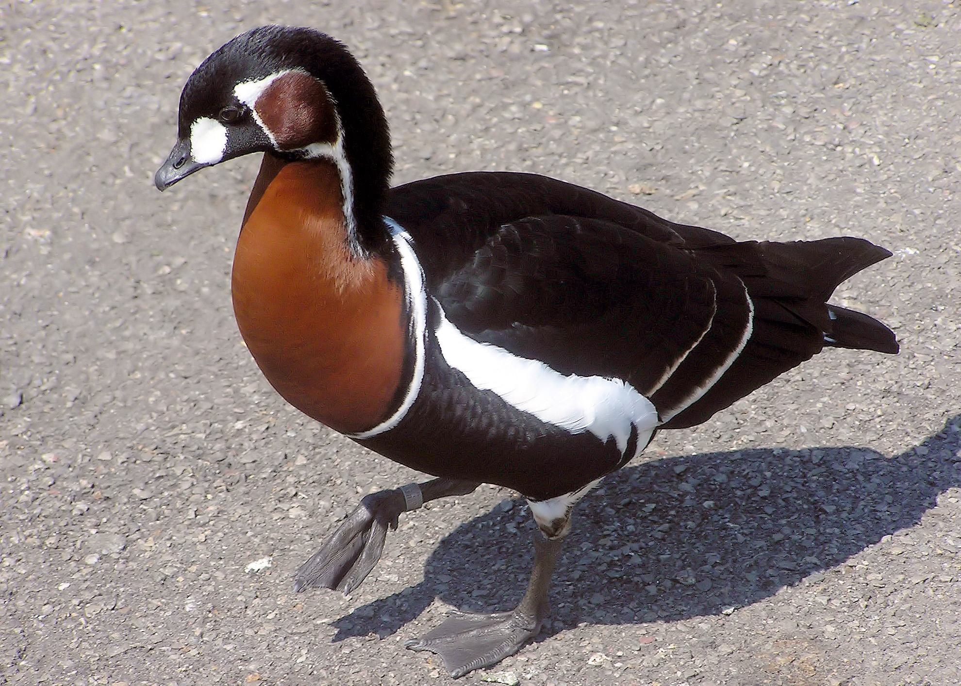 Red-breasted Goose Branta ruficollis at the Wildfowl and Wetlands Trust, Slimbridge, Gloucestershire, England.